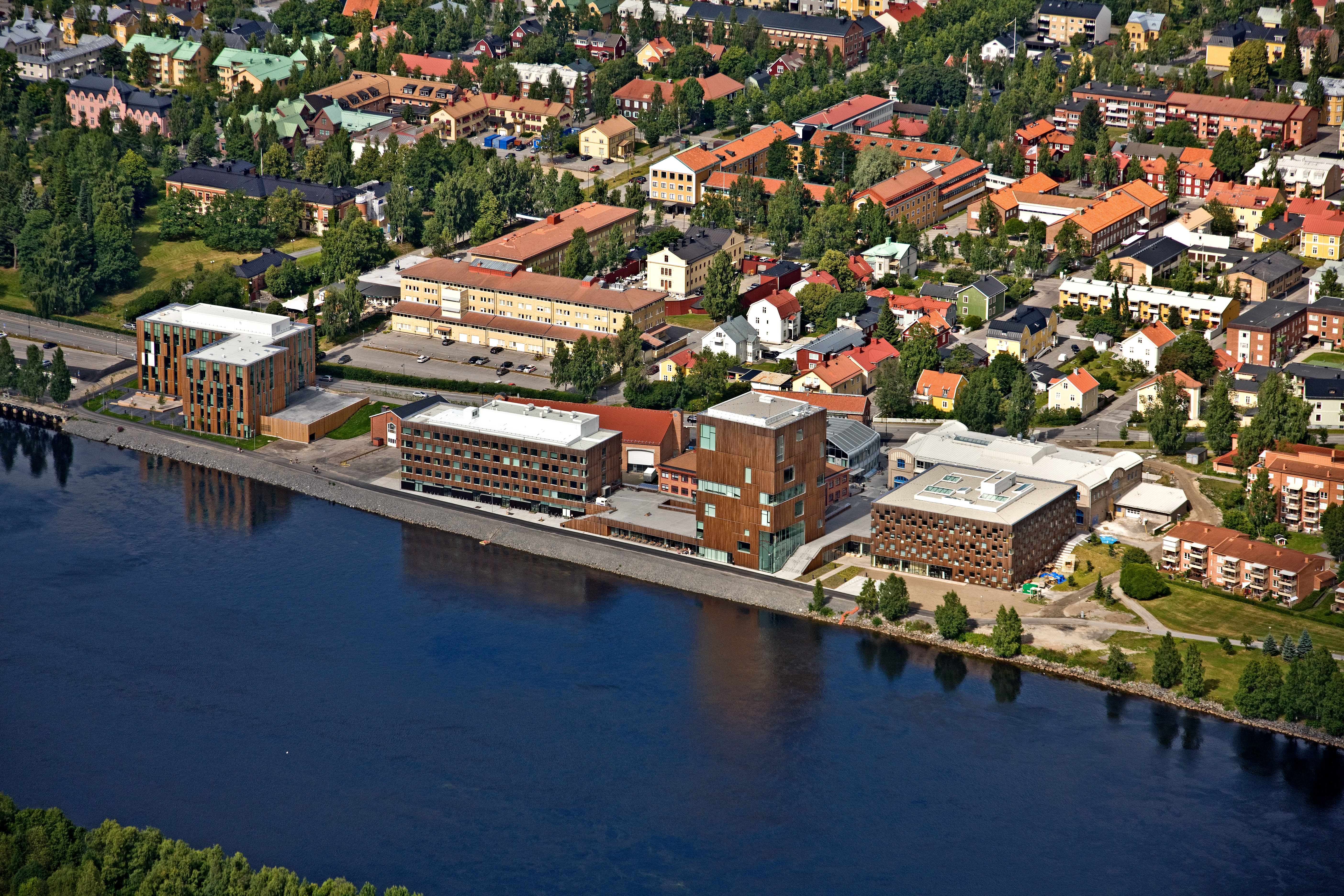 Aerial view of Umeå Arts Campus